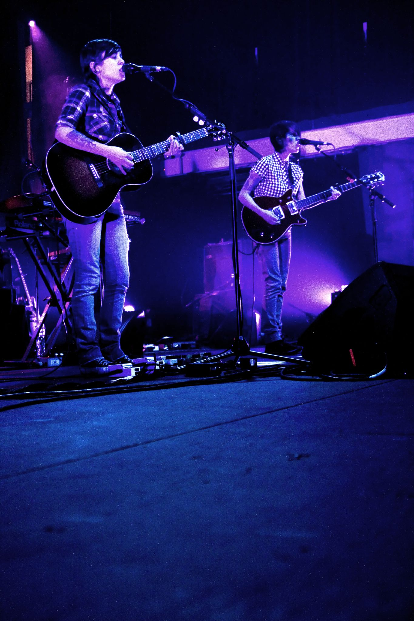 Tegan and Sara @ Terminal 5, NYC, 10/6/08